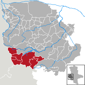 VG Brocken-Hochharz in Saxony-Anhalt - District Harz